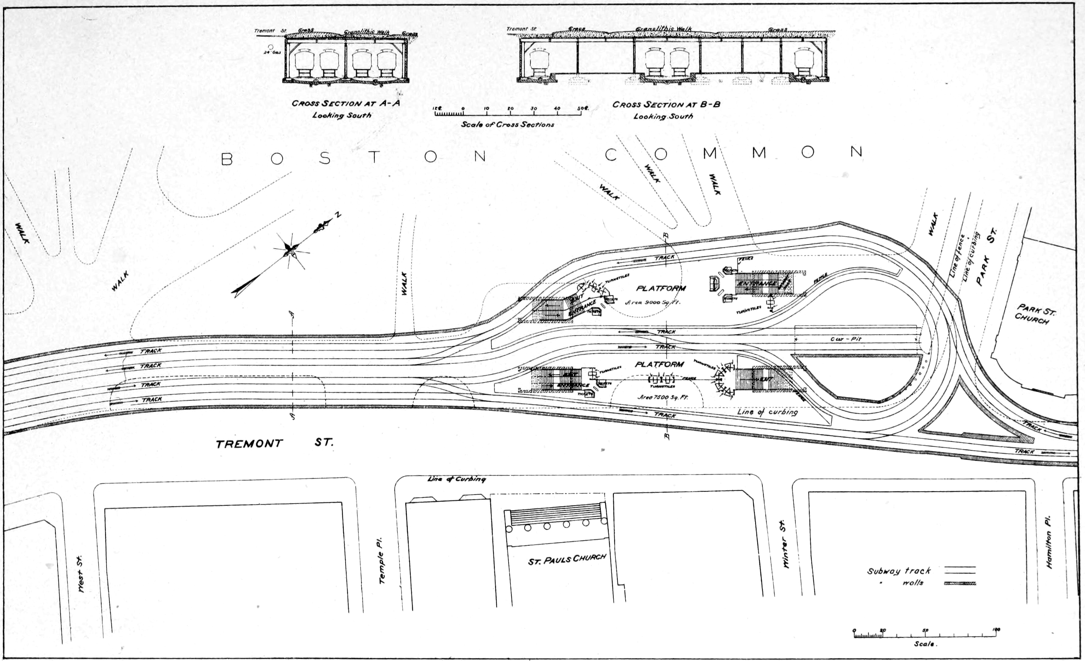 1898 plan of Park Street station. The station was intensely modified over the years following, most notably in 1912 and 1915.